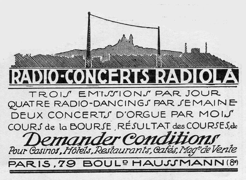 Radio-concerts_Radiola : advertisement of 1924